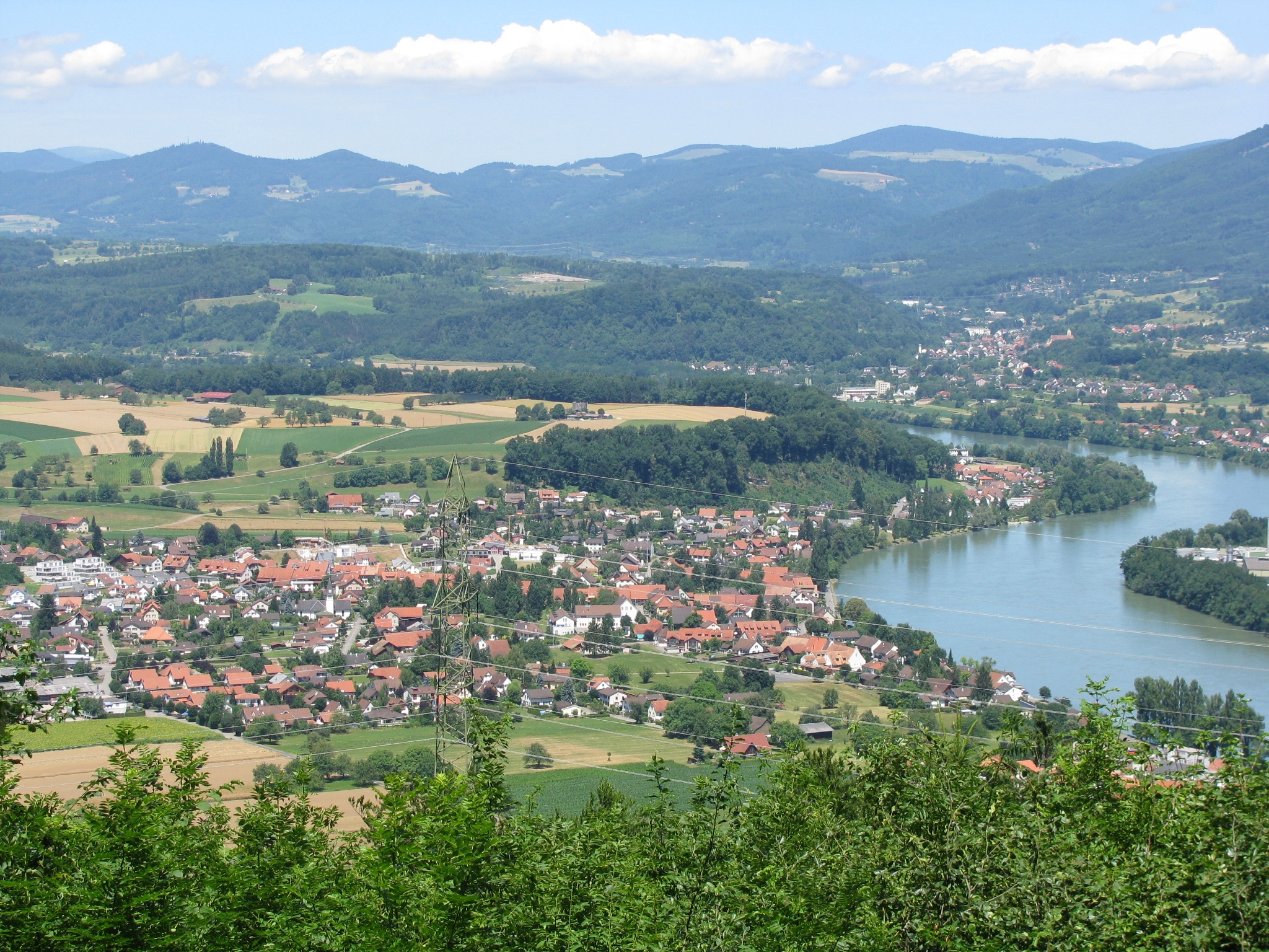 View of Wallbach on the left bank of Rhine